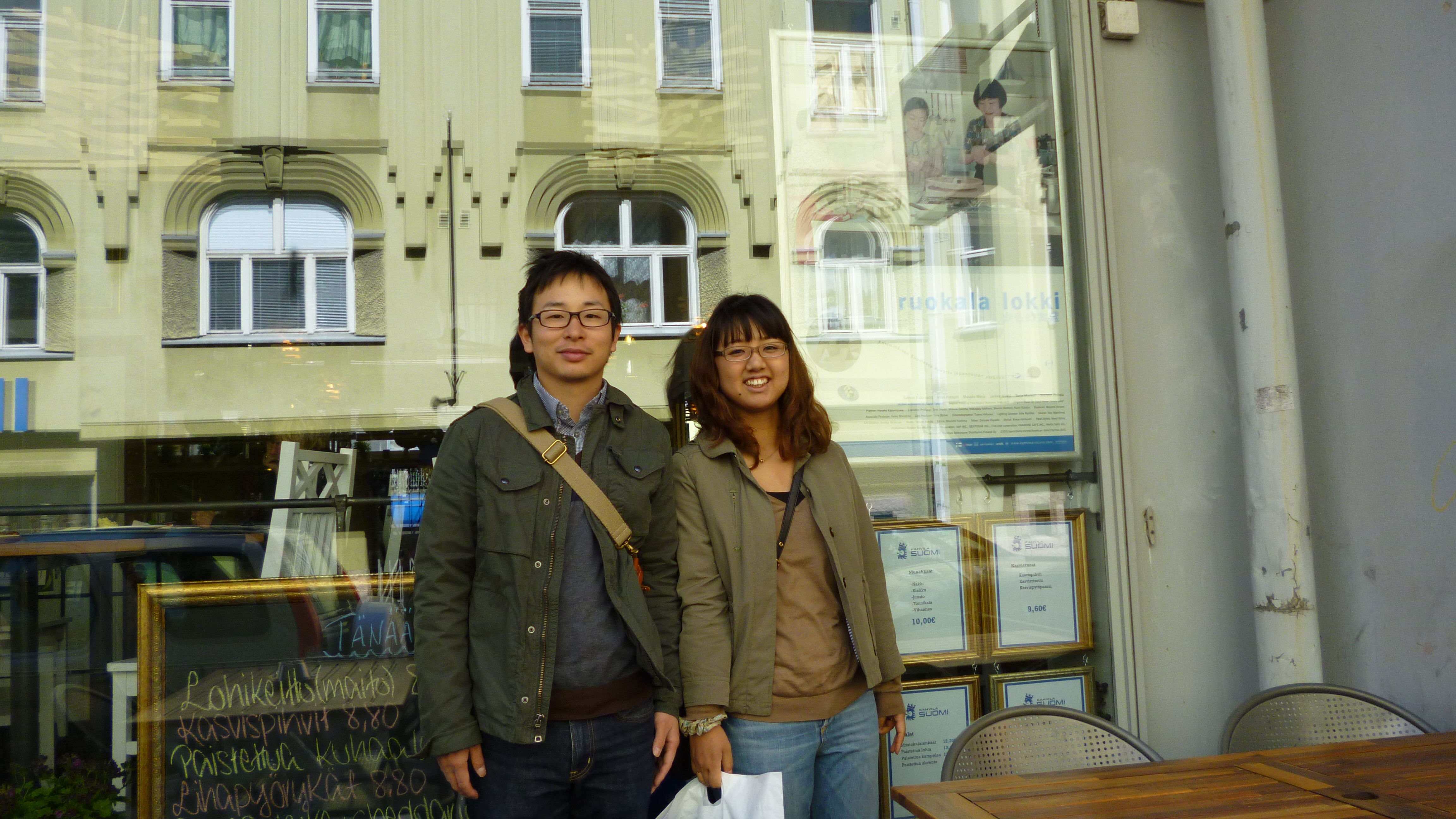 Ruokala Lokki (Kamome Shokudo) Helsinki